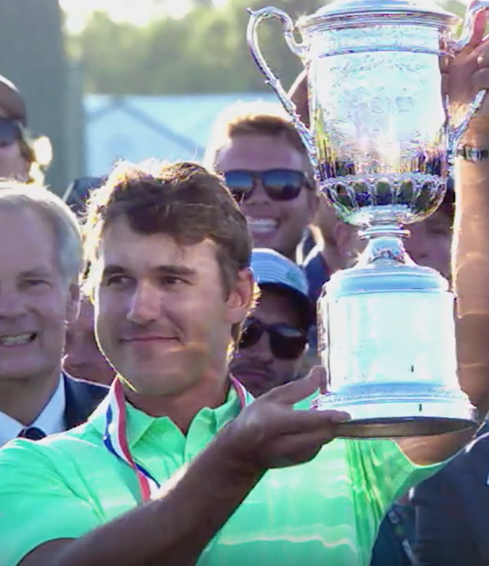 Brooks Koepka 2017 U.S. Open golf